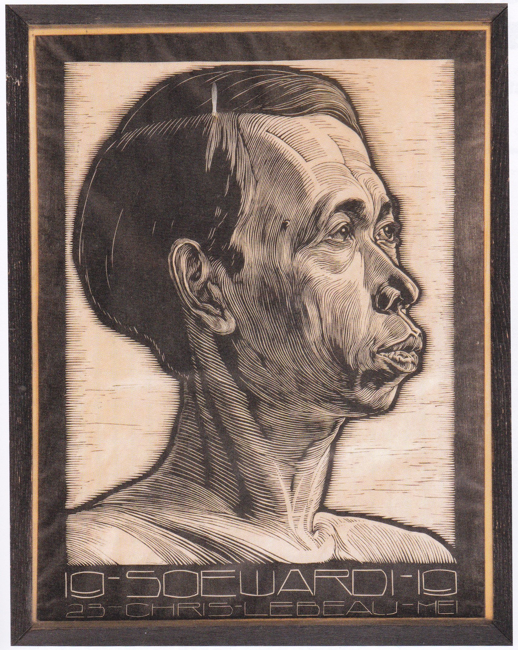 Woodcut of Soewardi (Ki Hadjar Dewantara) by Dutch artist Chris Lebeau (23 May 1919)